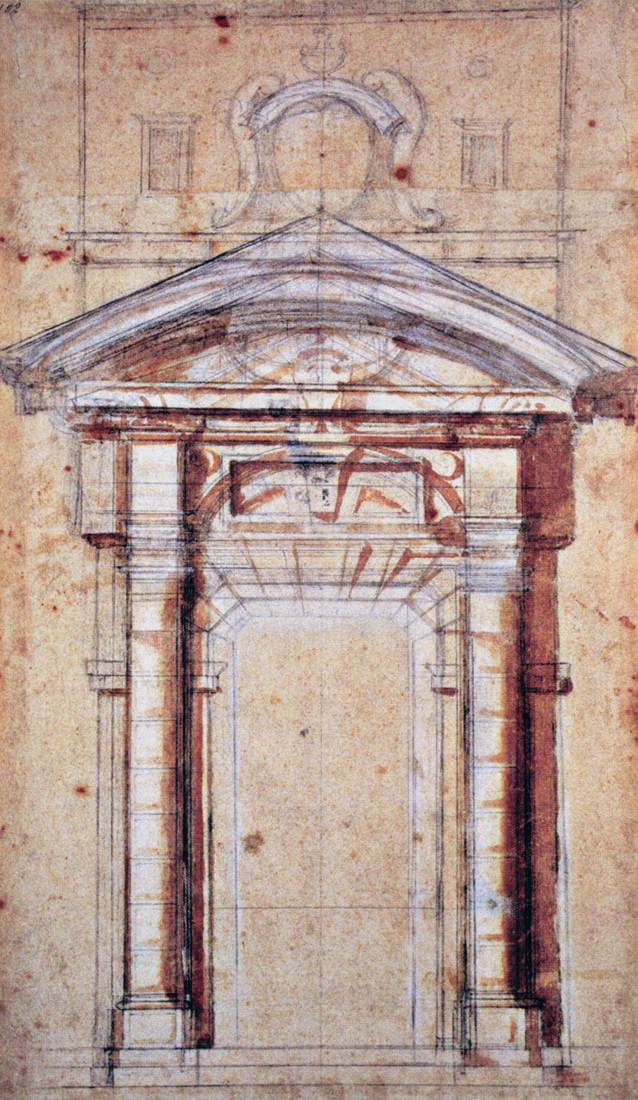 MICHELANGELO Buonarroti Study for Porta Pia Black pencil, pen and brown watercolour on brown paper, 470 x 280 mm Casa Buonarroti, Florence